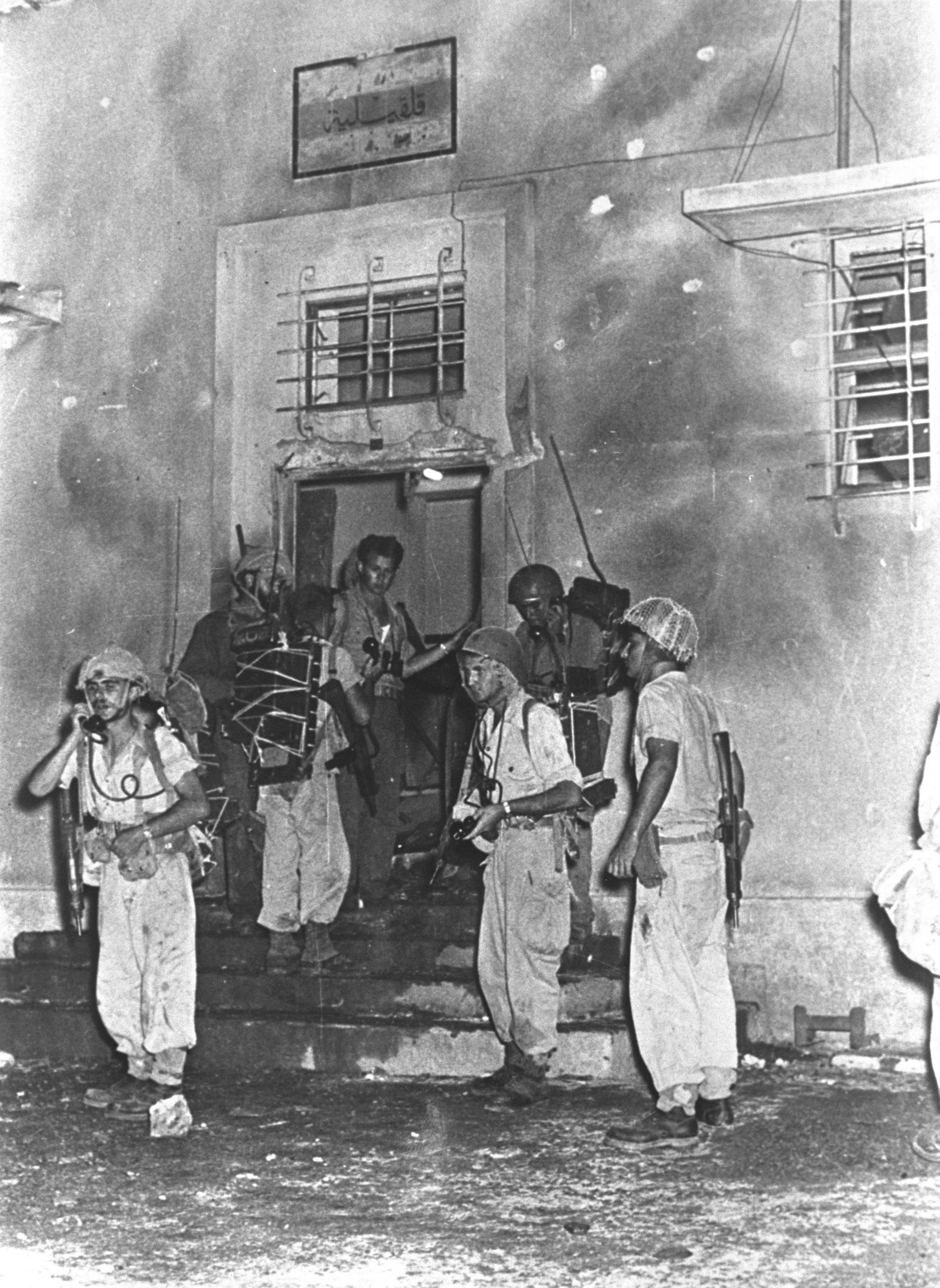 The raid on Kalkilia police